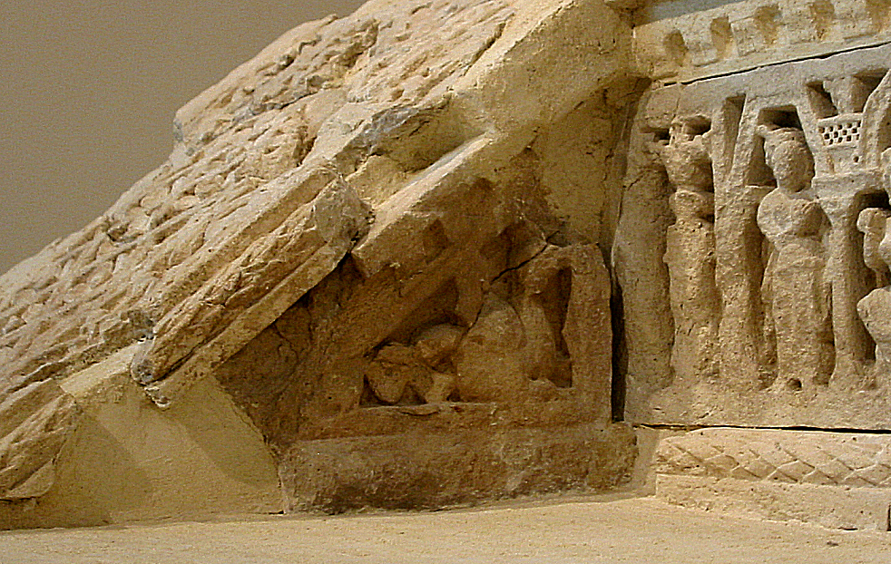 Stair riser, from Stupa C1